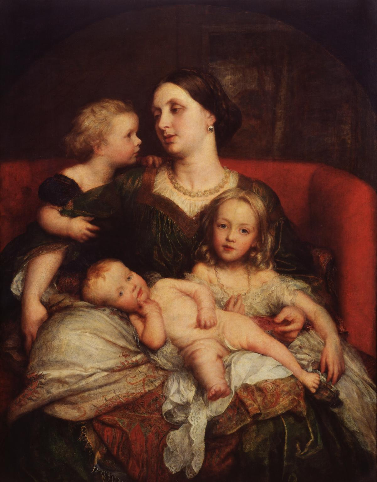 Title: Mrs George Augustus Frederick Cavendish-Bentinck and her Children Artist: George Frederic Watts (1817-1904) Acquisition: Presented by W.G.F. Cavendish-Bentinck 1948 Copyright: Photo © Tate CC-BY-NC-ND 3.0 (Unported)